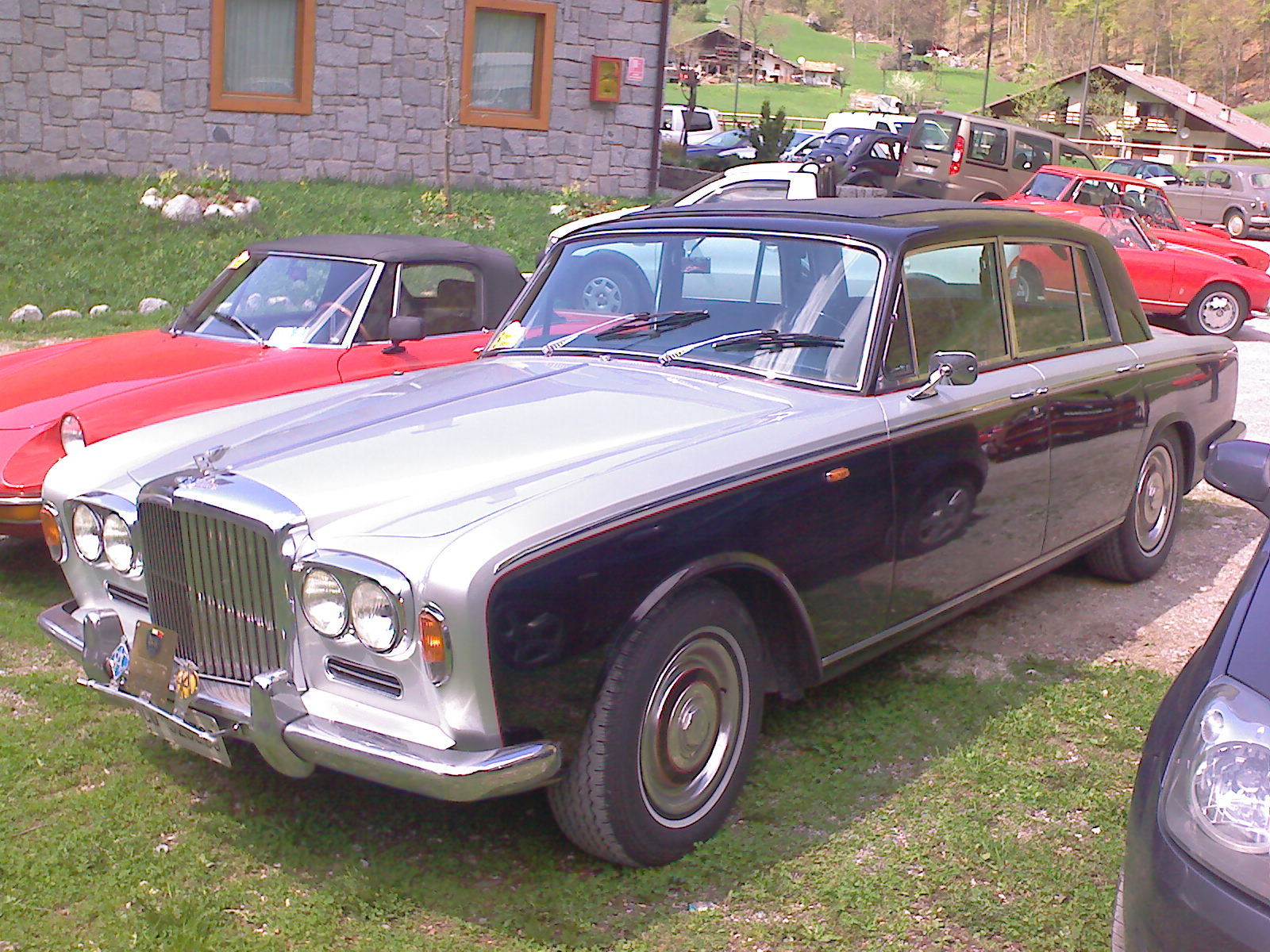 Bentley T1. Picture taken at Daone (Trento, Italy), on 30 april 2009